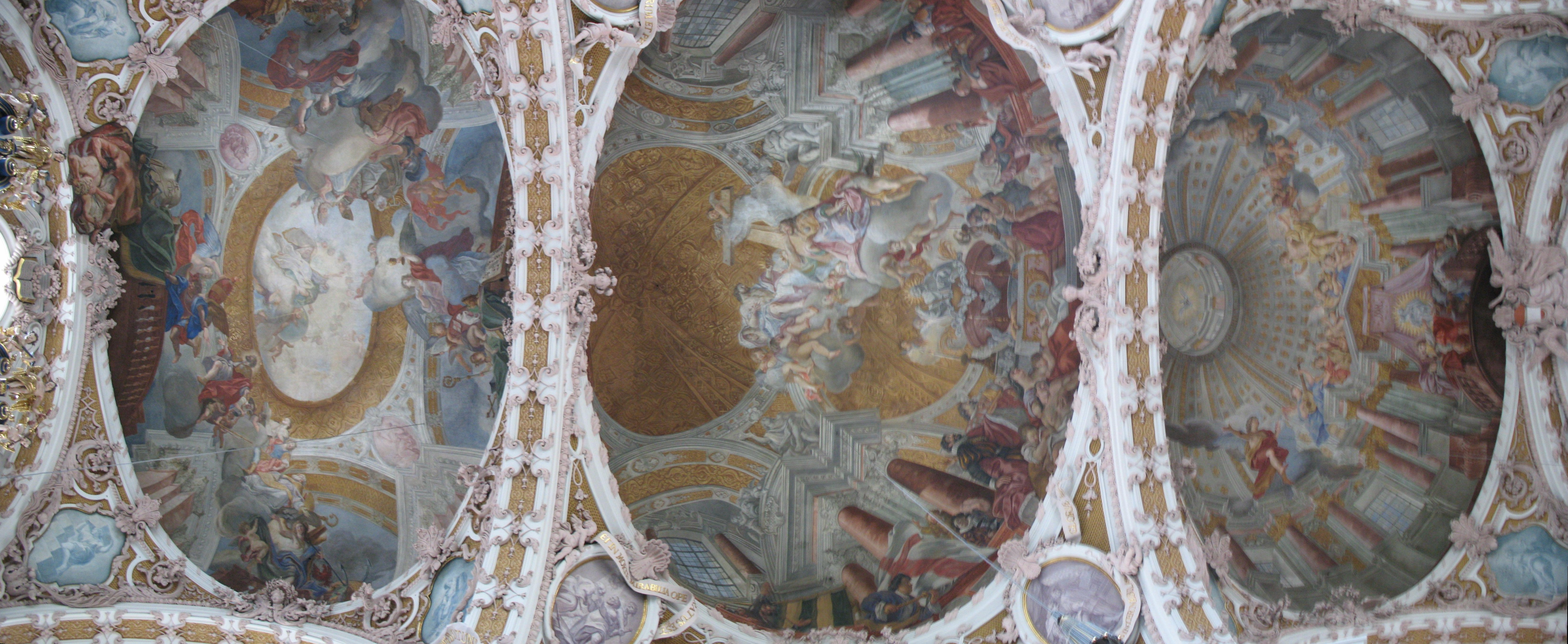 The ceiling of the Cathedral of Saint Jacob, Innsbruck, Austria